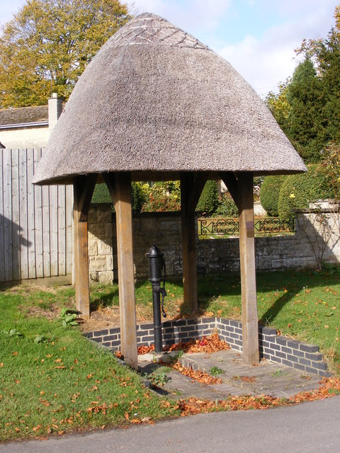 Fringford, Oxfordshire: village water pump with thatched roof